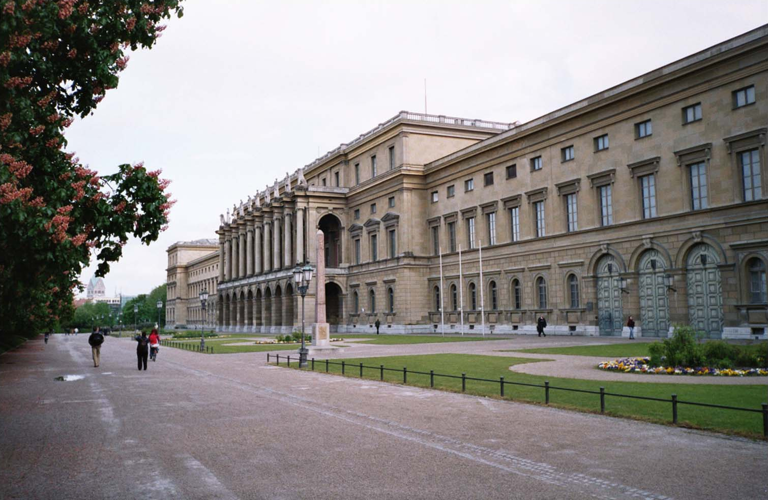 View on Residenz and Hofgarten, Munich, Bavaria